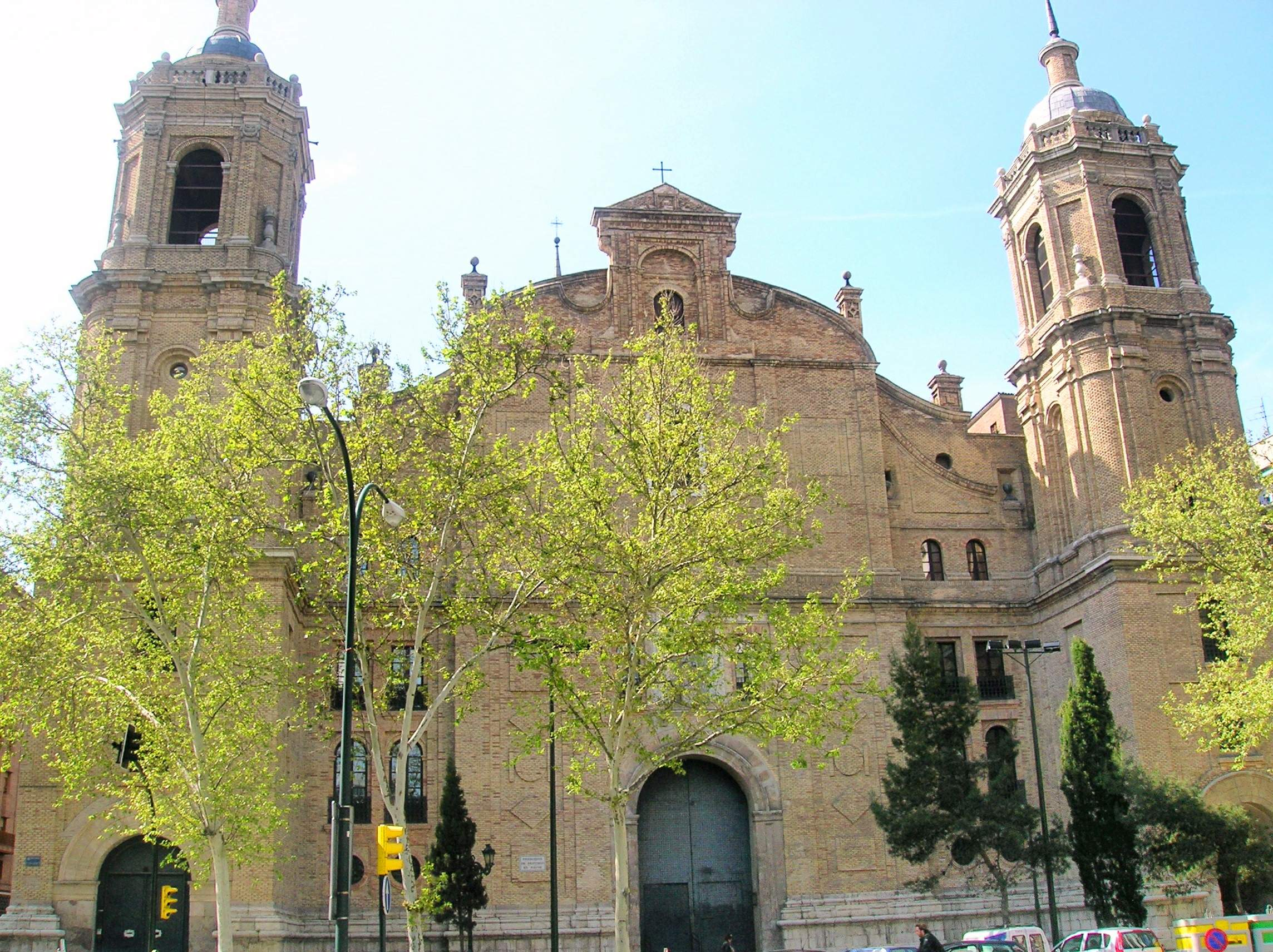 Iglesia de San Ildefonso ode Santiago el Mayor (Zaragoza)